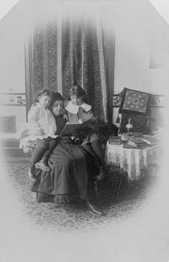 Marian Hubbard "Daisy" Bell and Elsie May Bell with governess. Forms part of: Gilbert H. Grosvenor Collection of Photographs of the Alexander Graham Bell Family (Library of Congress).